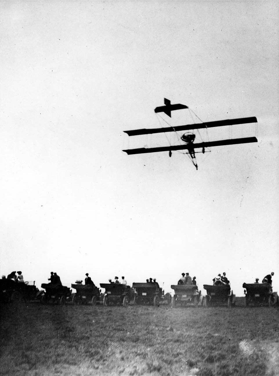 Airplane flying over a row of automobiles, Toronto, Canada. City of Toronto Archives notation indicates that airplane is probably a Curtiss-type "Pusher" bi-plane with inset ailerons and rotary engine, flown by Charles F. Willard, and that the event may be the Aviation Meet held at Donlands Farm, Todmorden Mills, August 3-5, 1911.